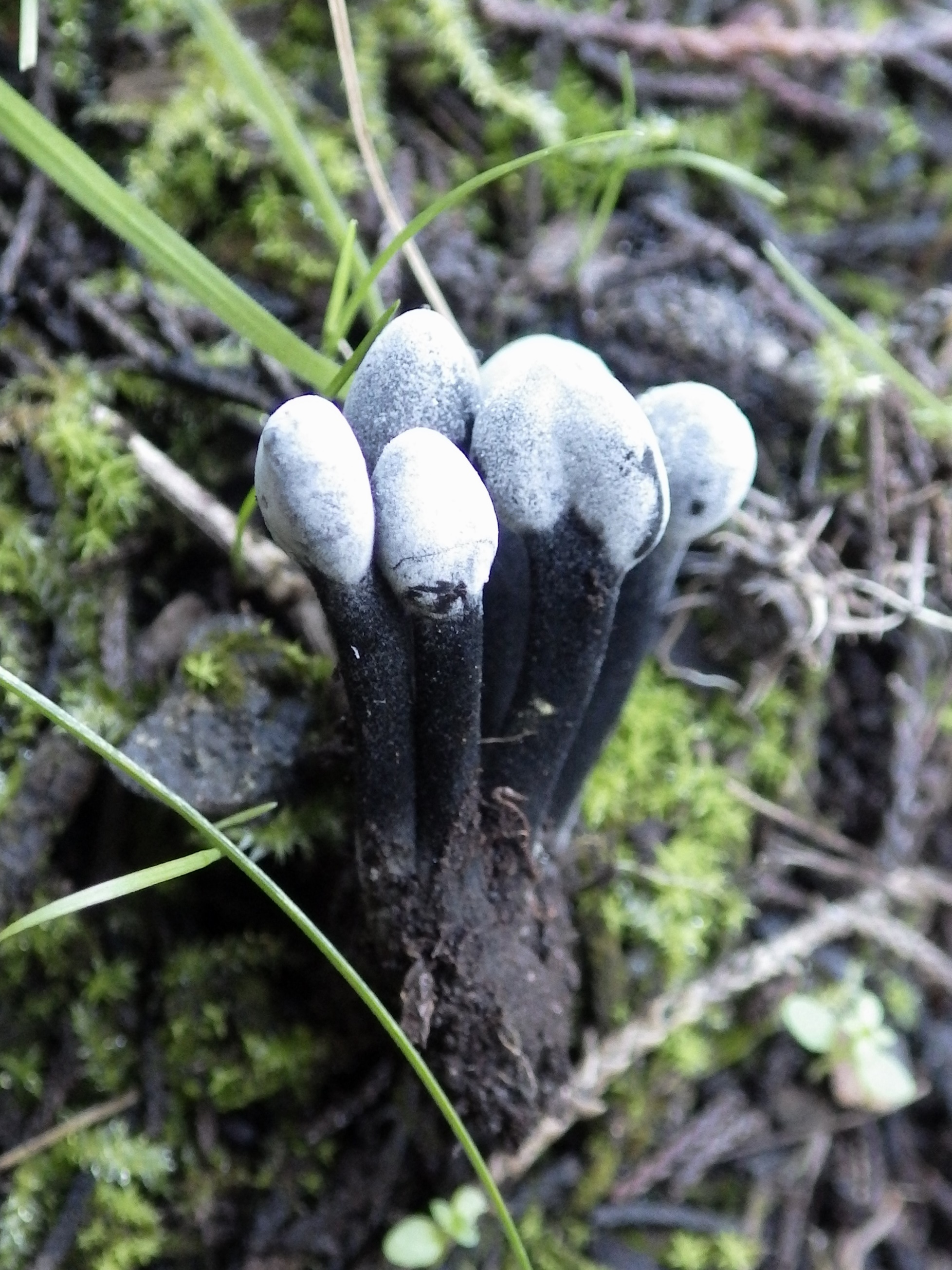 The parasitic fungus Hypomyces papulasporae infecting Trichoglossum. Photographed in Parque de Monsanto, Lisboa, Portugal. "Notes: White frosted portions of earth tongues (tips) covered in conidiophores. Unfortunately, no chlamydospores were present. The earth tongues are infertile Trichoglossum sp., due to youth"